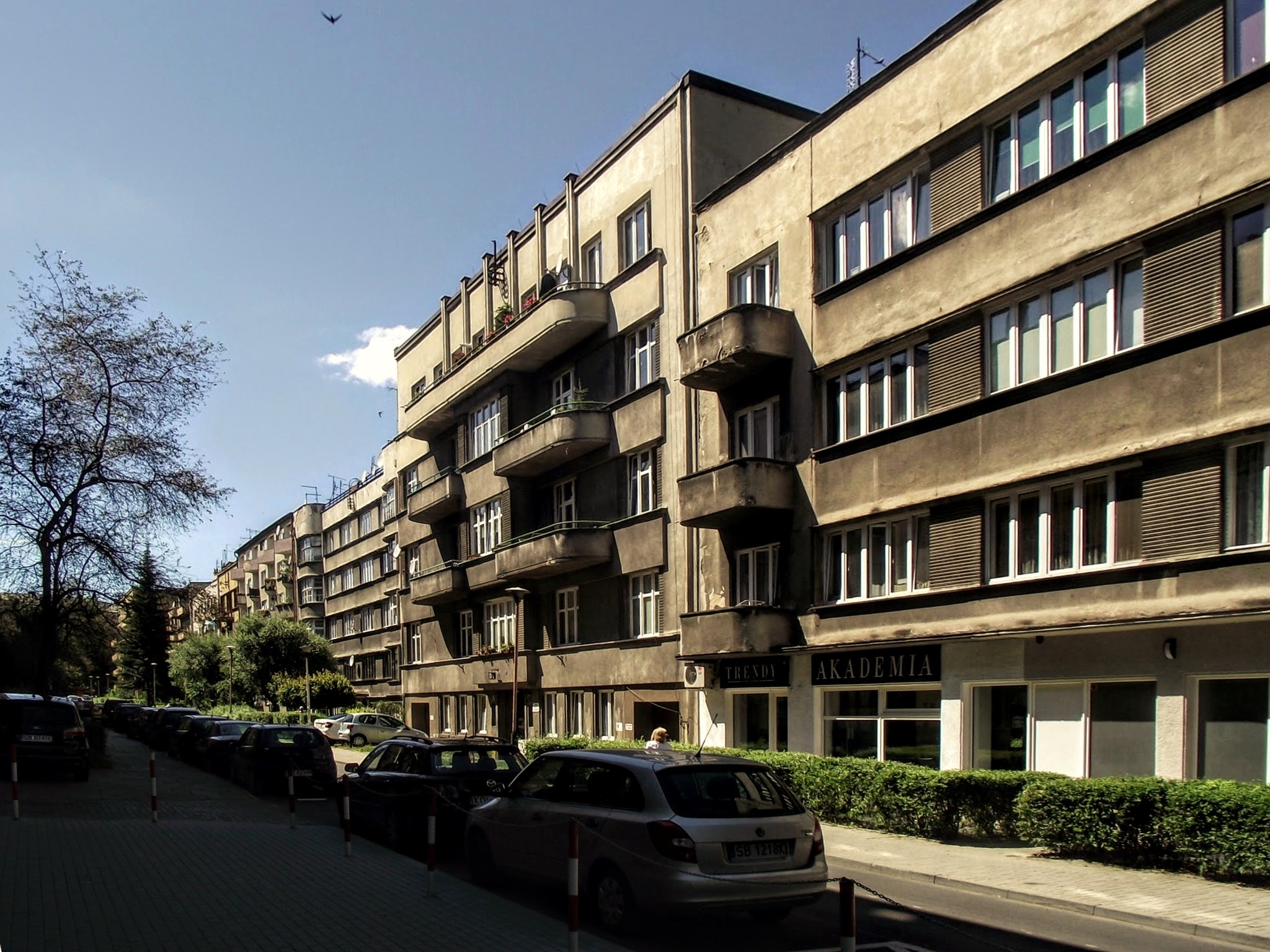 Bohaterów Warszawy Street in Bielsko-Biała.